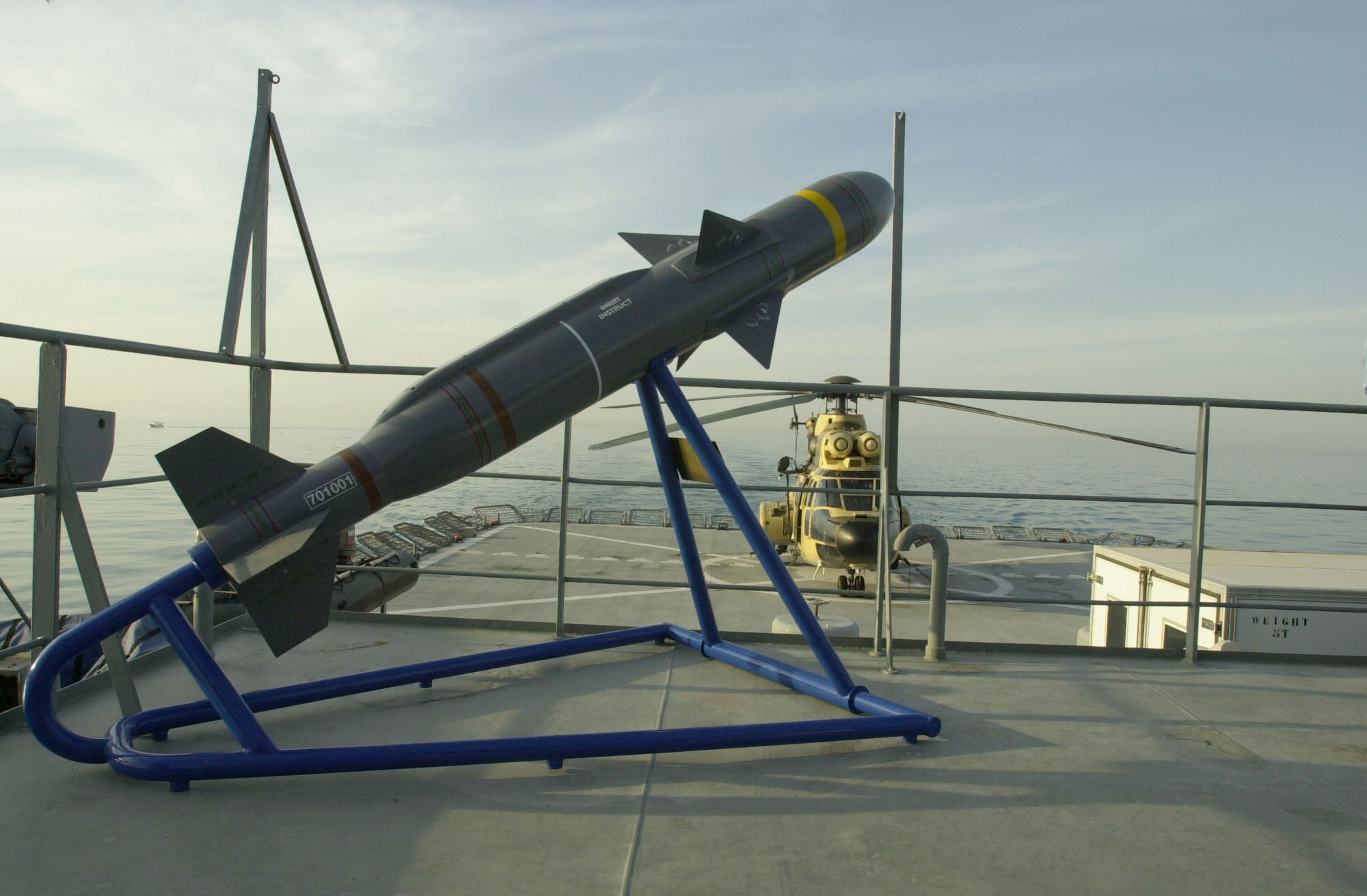 At sea aboard KNS Al-Dorrar (P 5509) Mar. 12, 2002 -- An inert Sea Skua light anti-ship missile is placed on the deck of the Kuwaiti ship during a joint firing exercise conducted by the Kuwaiti Navy and coalition forces in support of Operation Enduring Freedom. The British made Sea Skua missile is helicopter launched and weighs over 312 pounds, with an effective range of over nine nautical miles. U.S. Navy photo by Photographer’s Mate 1st Class Kevin H. Tierney. (RELEASED)